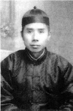 Lin Busui